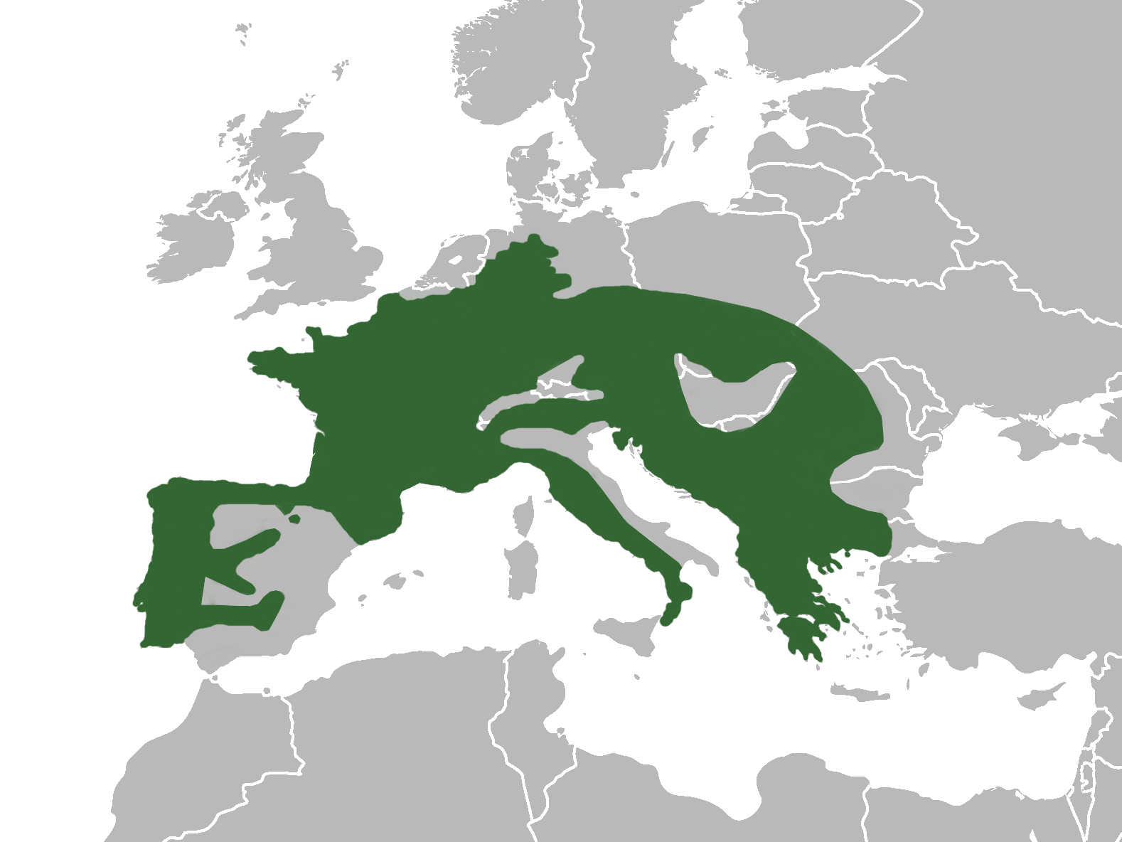 Range map to the distribution of the Common Fire Salamander, Salamandra salamandra — the species' range is coloured green. Former subspecies in Corsica, north-western Africa and the Middle East are not included because of their new status as separate species (= Salamandra algira, Salamandra corsica, Salamandra infraimmaculata). Reference: Range map at IUCN Red List; but especially the German range is shown more precise relating to R. Günther: Die Amphibien und Reptilien Deutschlands. Ulmer, Stuttgart 1996.